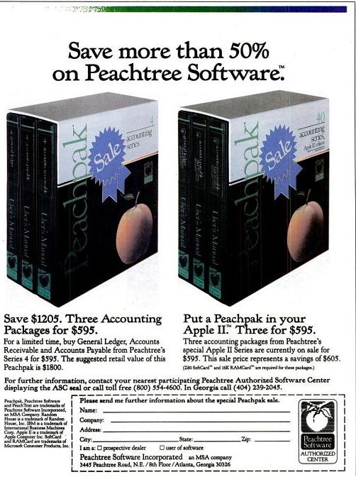 Peachtree Software advertisement in November 29, 1982 issue of InfoWorld magazine. Page 69.